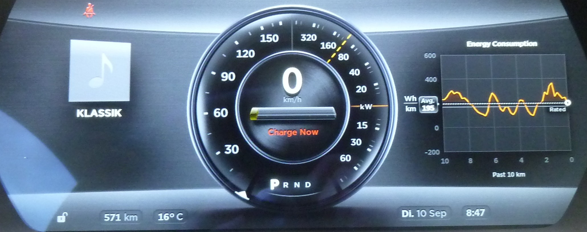 Tesla Model S P85+ dashboard with zero range. The range prediction was such that it was possible to arrive at the destination (The Munich Tesla Store) just as the range went from "1 Rated Range" (km) to "Charge Now". I did this on purpose to test the range prediction and my own range anxiety. I did not try to drive the car while the range was at zero